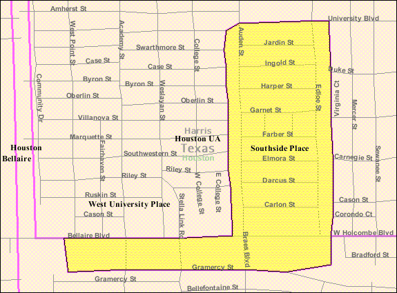 Map of Southside Place, Texas